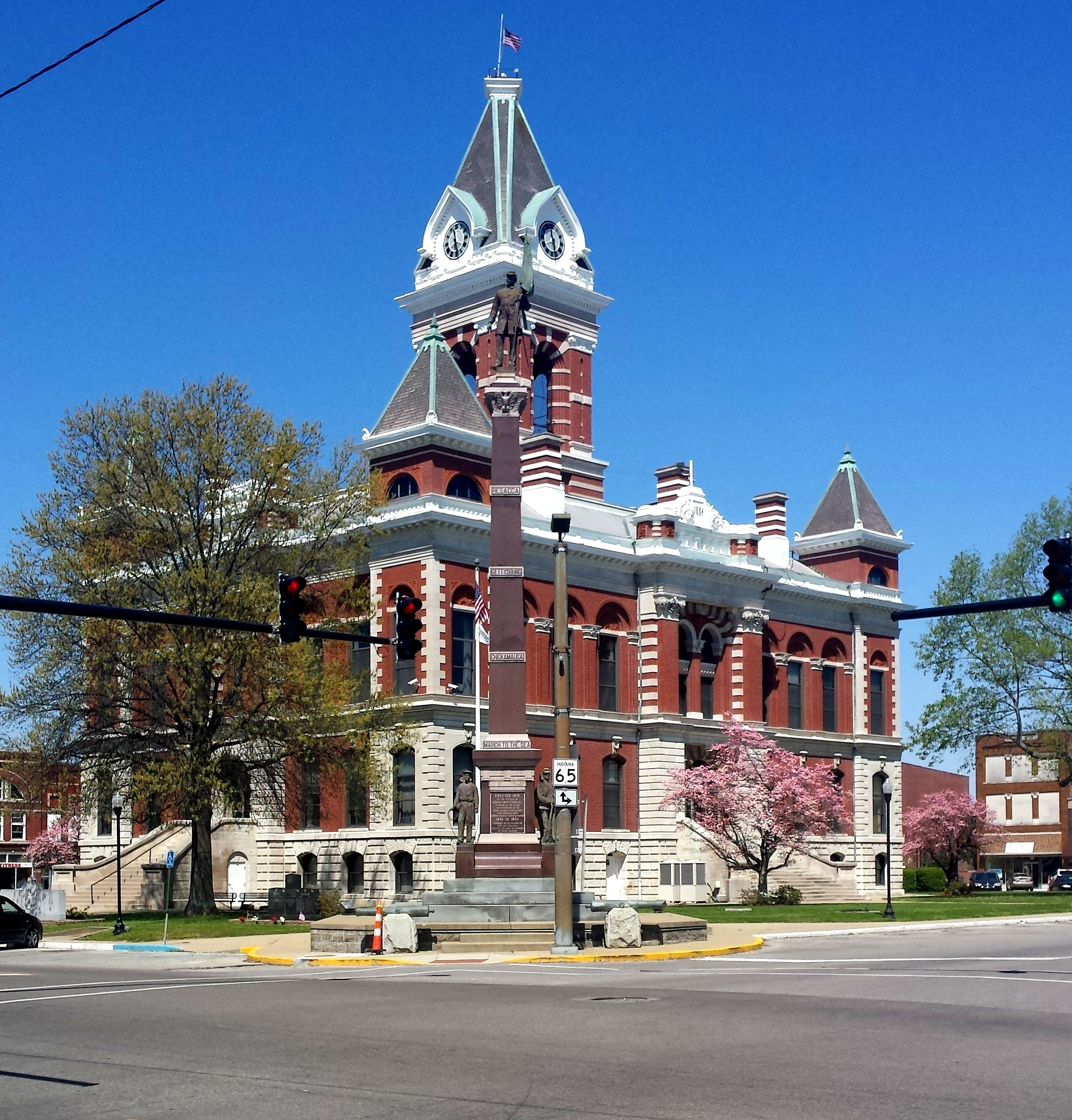 Southeast Corner of the Gibson County Courthouse in Princeton, Indiana